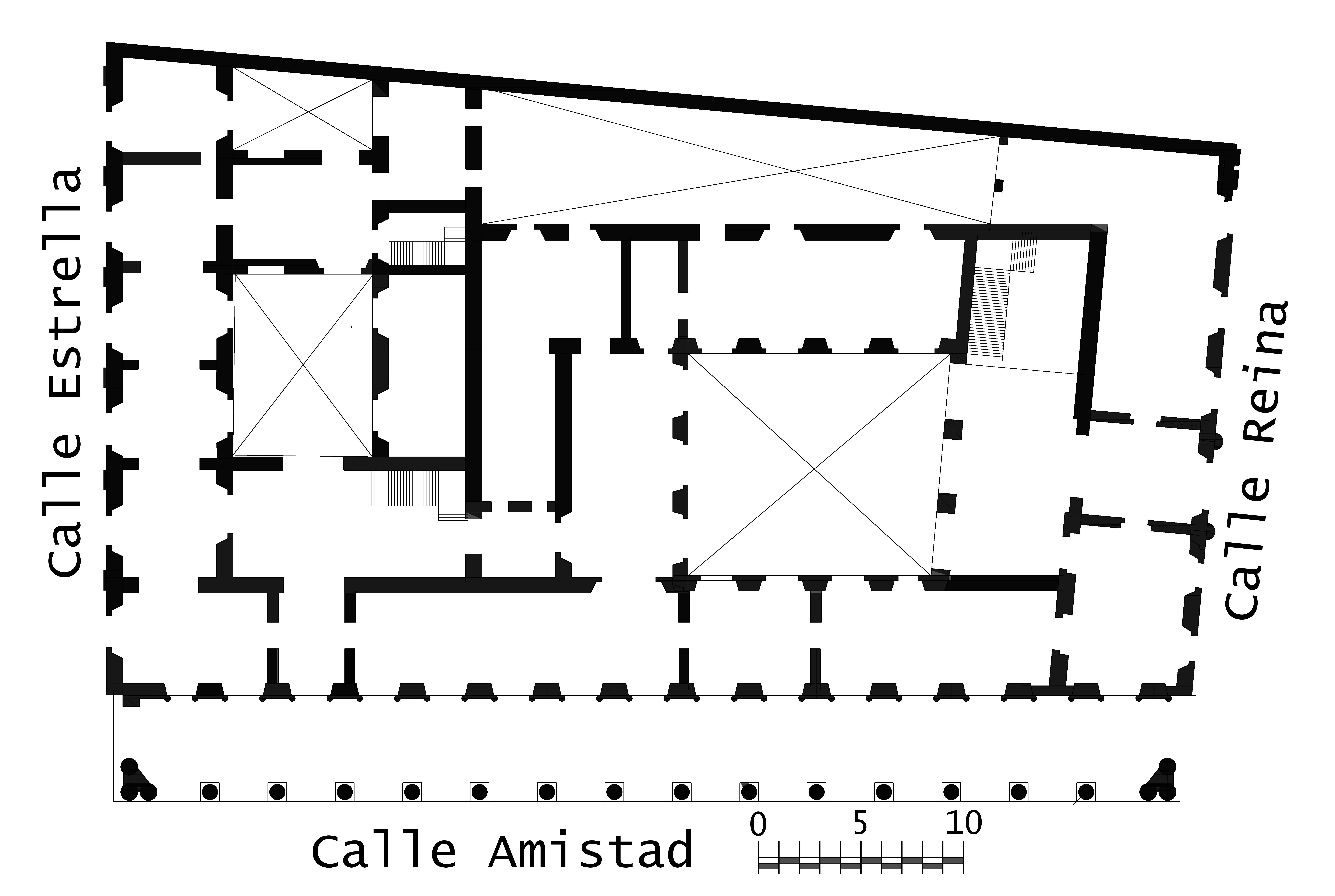 Palacio de Aldama Havana_Autocad Floor Plan_First Floor.